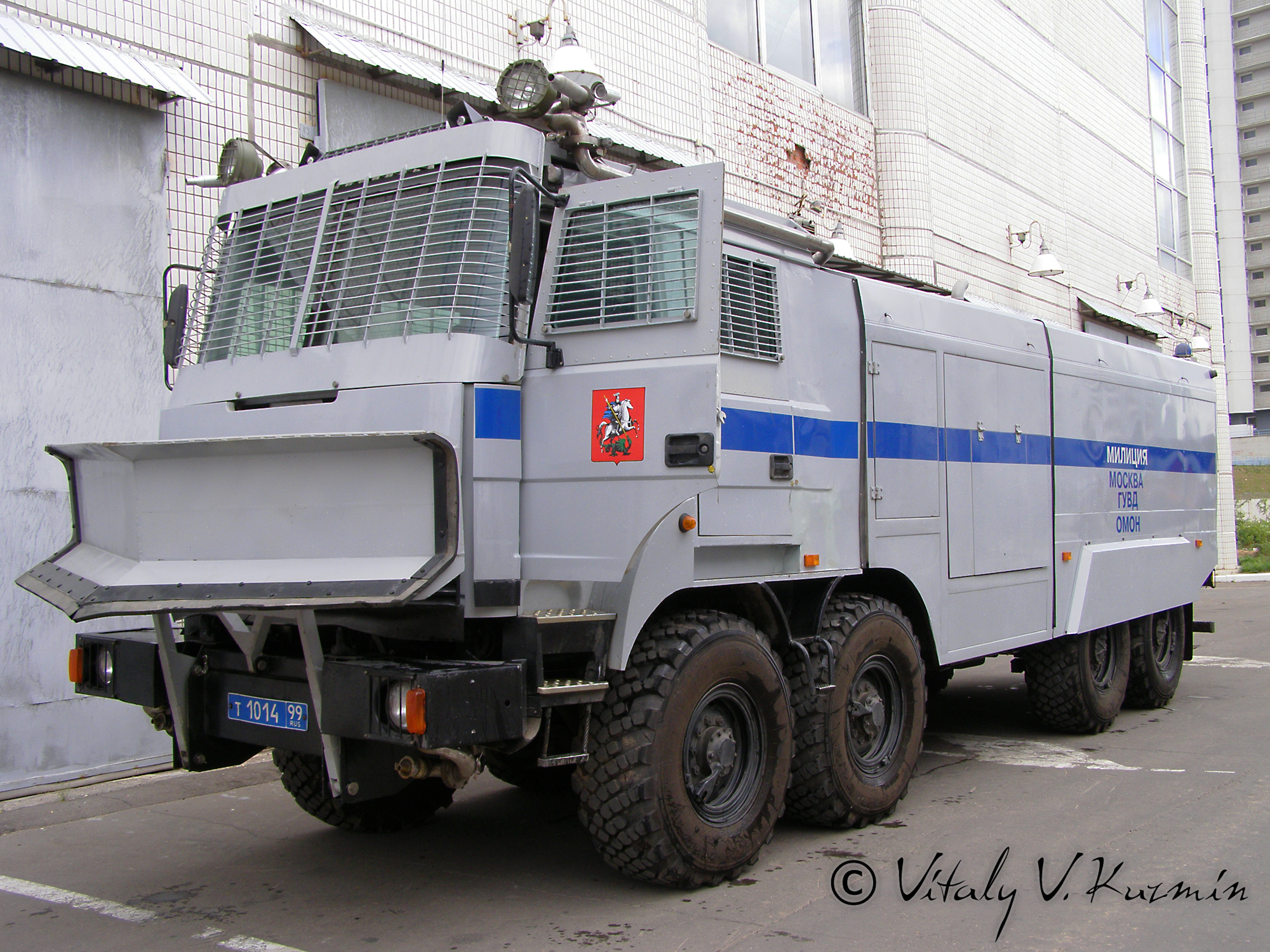 Moscow OMON antiriot vehicle "Lavina-Uragan"